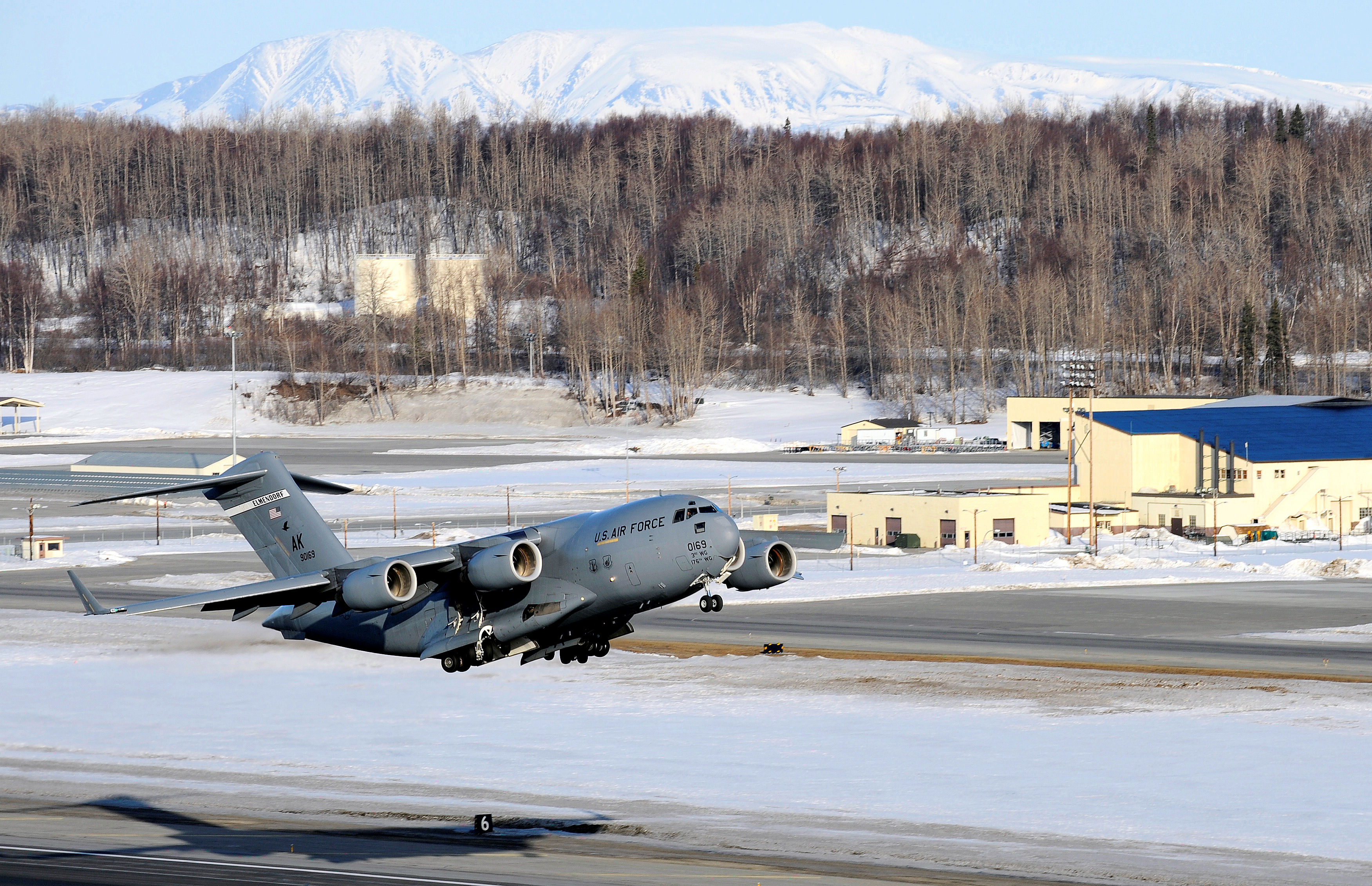 A C-17 Globemaster III takes off from Elmendorf Air Force Base March 26. Col. Thomas Bergeson, 3rd Wing commander and F-22 Raptor pilot, was behind the controls of the aircraft for the first time. The flight included a KC-135 Stratotanker refuel, tactical arrivals and departures at Allen Army Airfield and low-level flying. (U.S. Air Force photo/Staff. Sgt. Brian Ferguson)